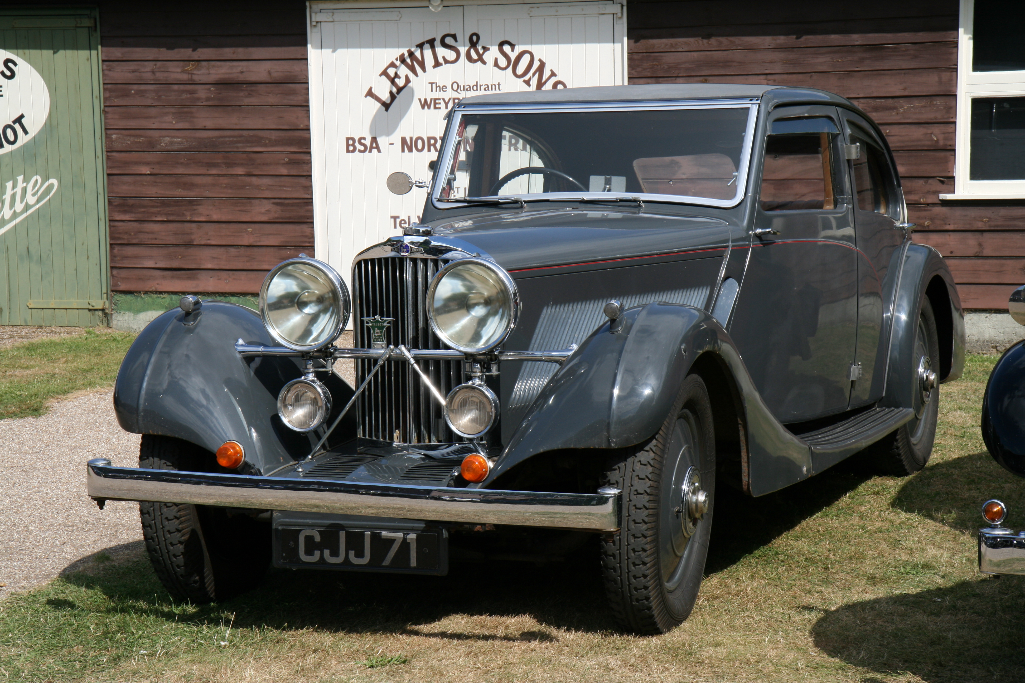 1935 Talbot 105 Airline coupé (DVLA) first registered 3 December 1935, 2969 cc Brooklands Reunion 14 August 2016